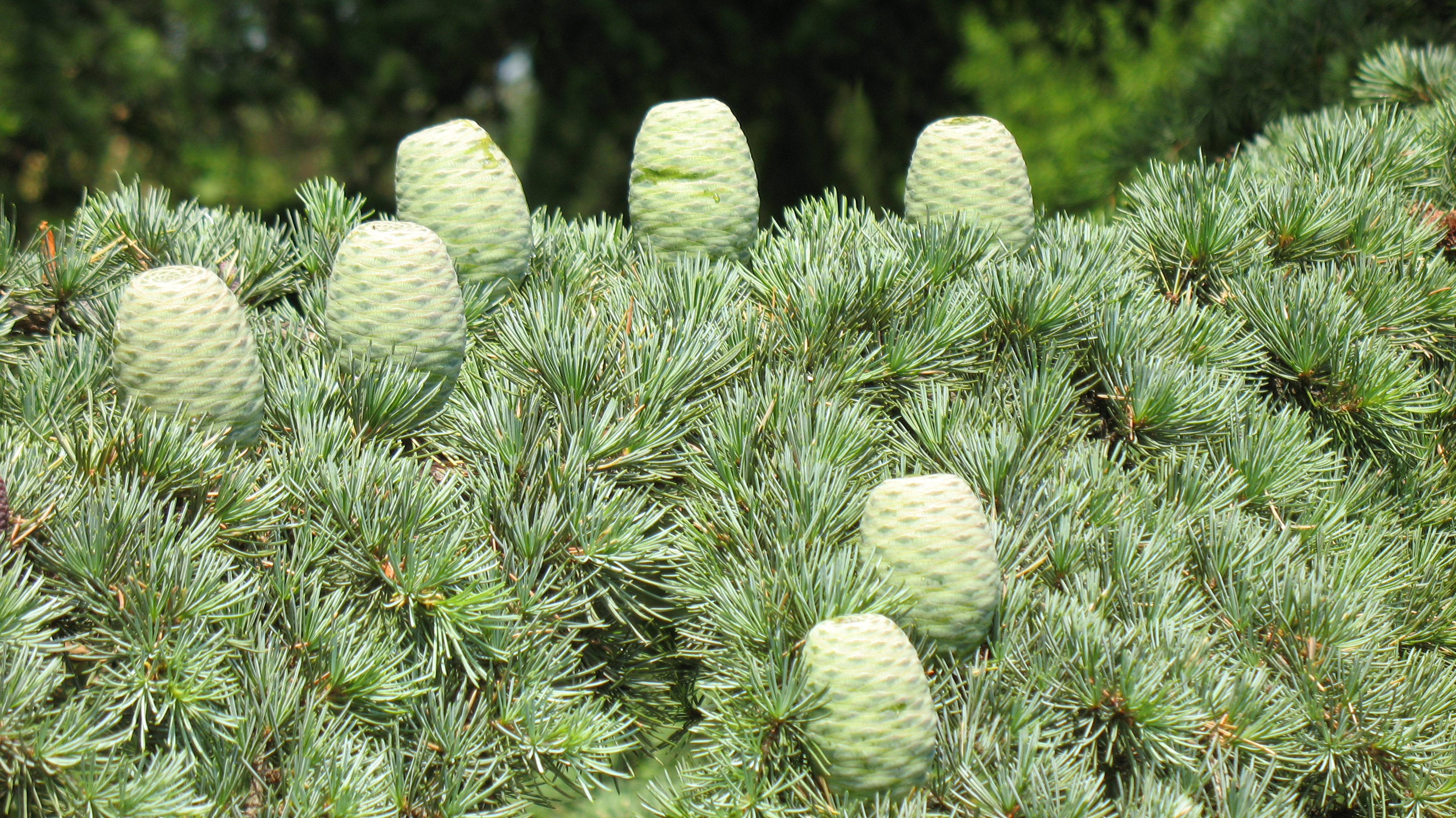 The green seed cones of Cedrus.